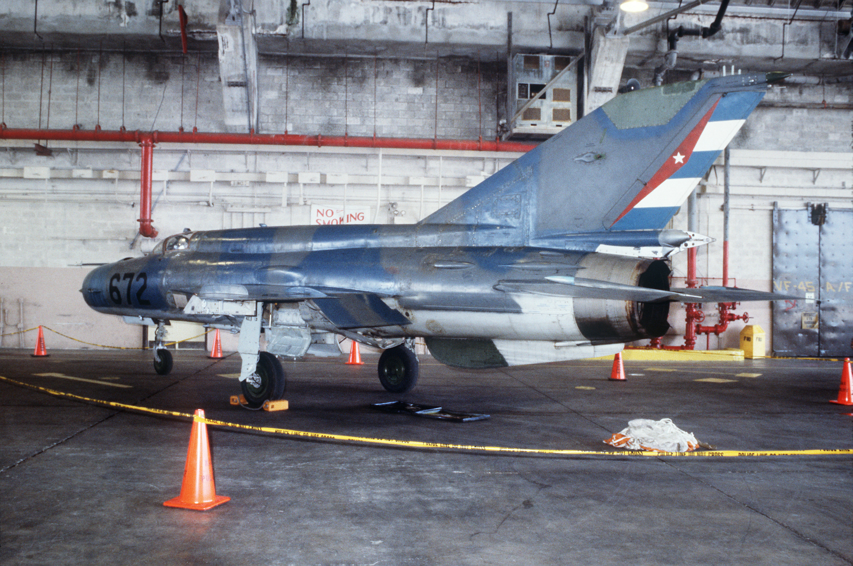 A left side view of a Cuban MIG-21 fighter aircraft inside VF-45 hangar. It was flown to Key West on September 20, 1993 by a defecting Cuban pilot, Location: NAVAL AIR STATION, KEY WEST, FLORIDA (FL) UNITED STATES OF AMERICA (USA)